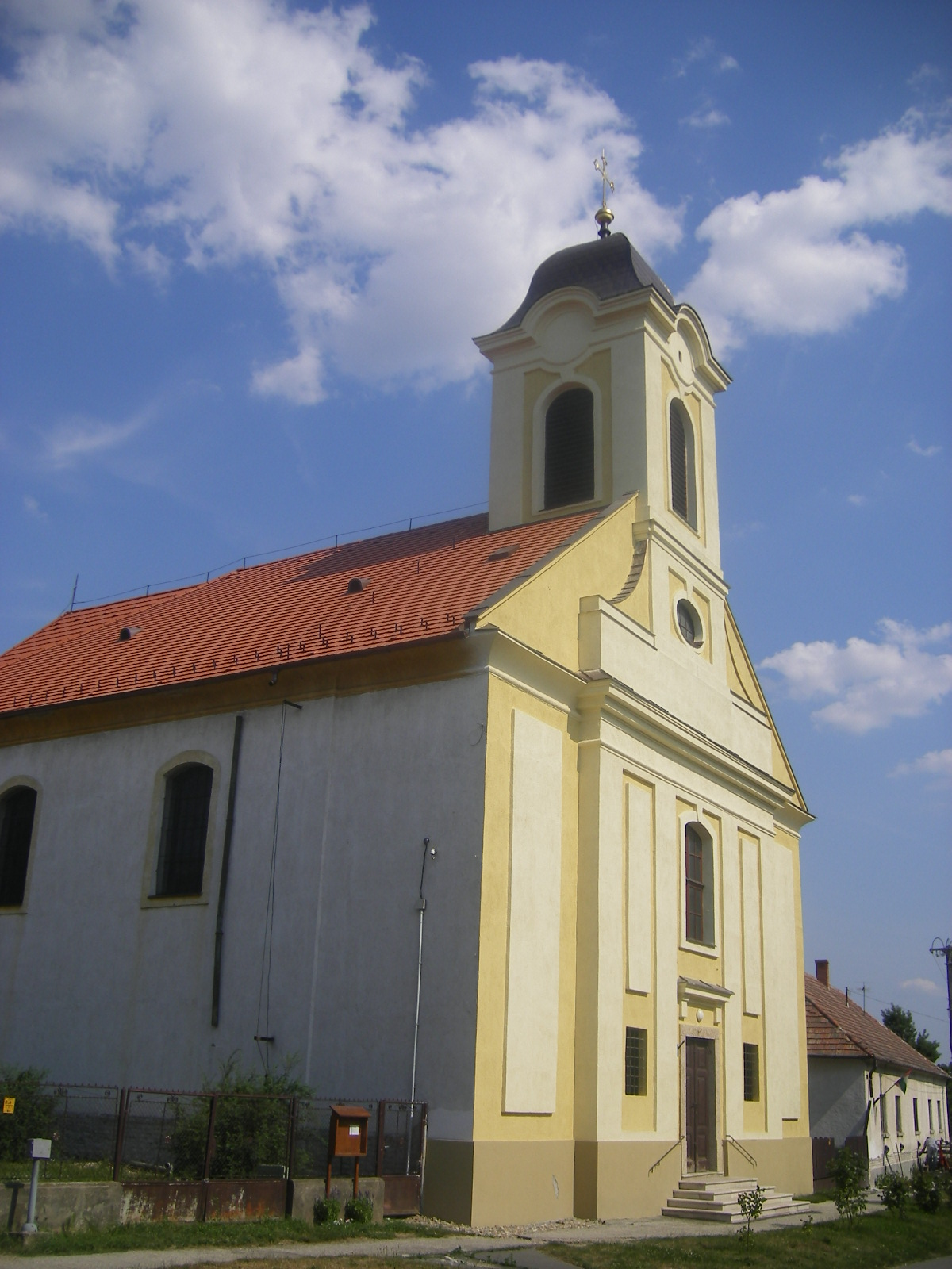 Lázi, Alexandriai Szent Katalin római katolikus templom This is a photo of a monument in Hungary. Identifier: 4498